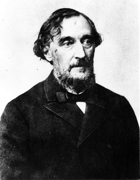 Bartolomé Mitre (Buenos Aires, 26 January 1821 - 19 January 1906) was an Argentine politician, militar, historian, statesman and journalist. He was also Governor of Buenos Aires Province and then President of Argentina from 1862 to 1868.